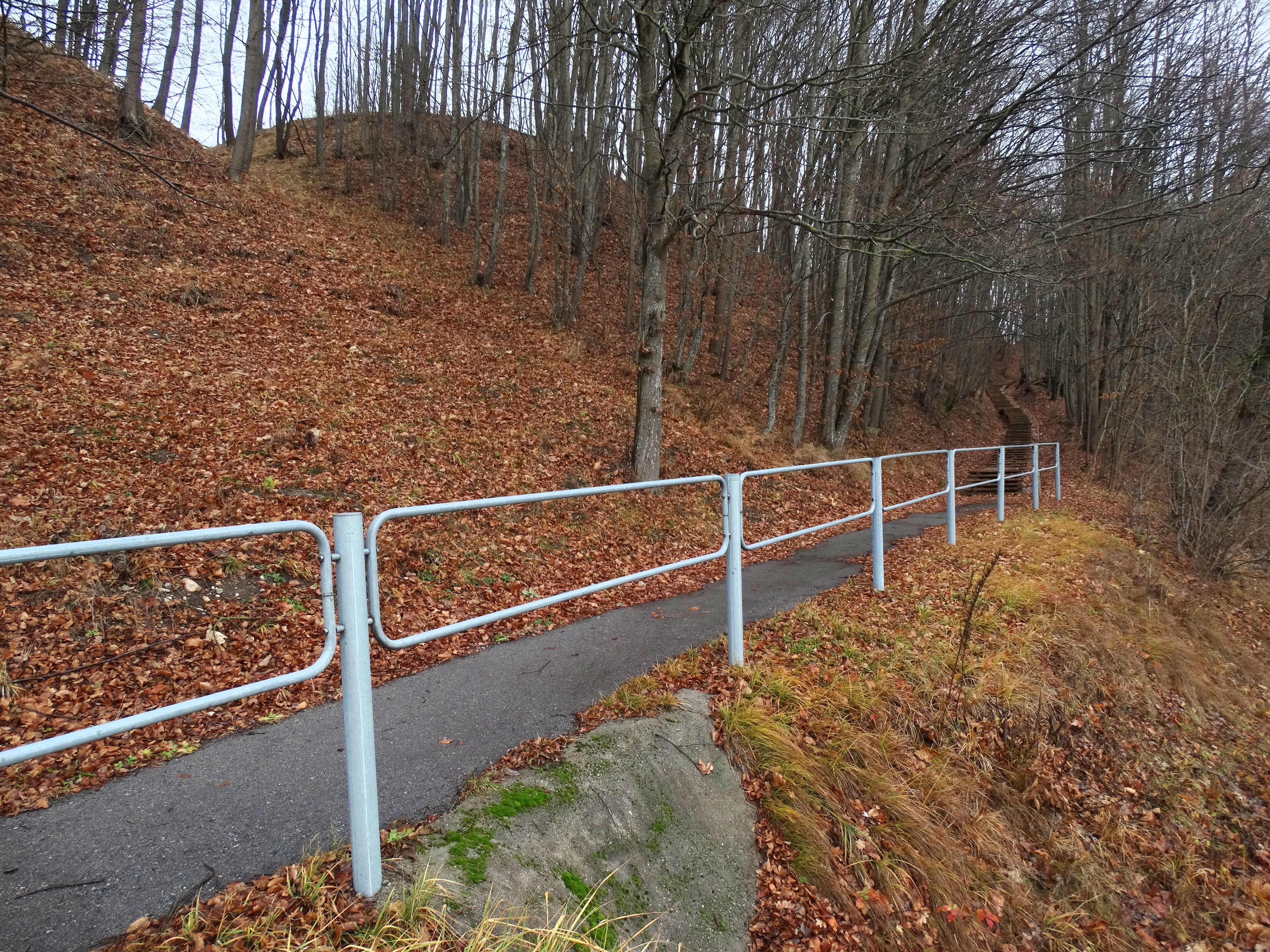 Kartupėnai hillfort by Pilis I, Jurbarkas district, Lithuania